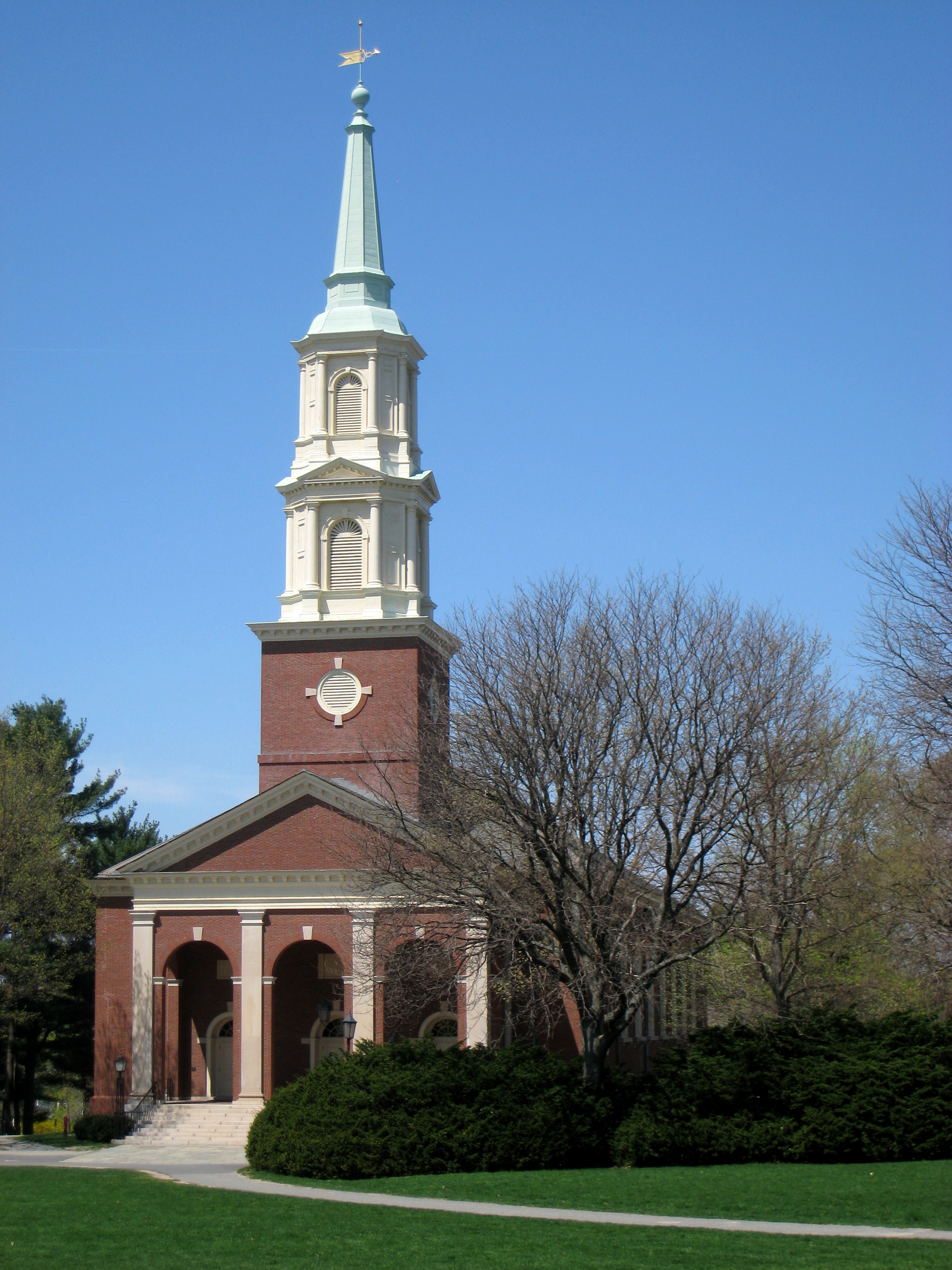 Phillips Academy, Andover, Massachusetts, USA - Cochran Chapel, front facade.